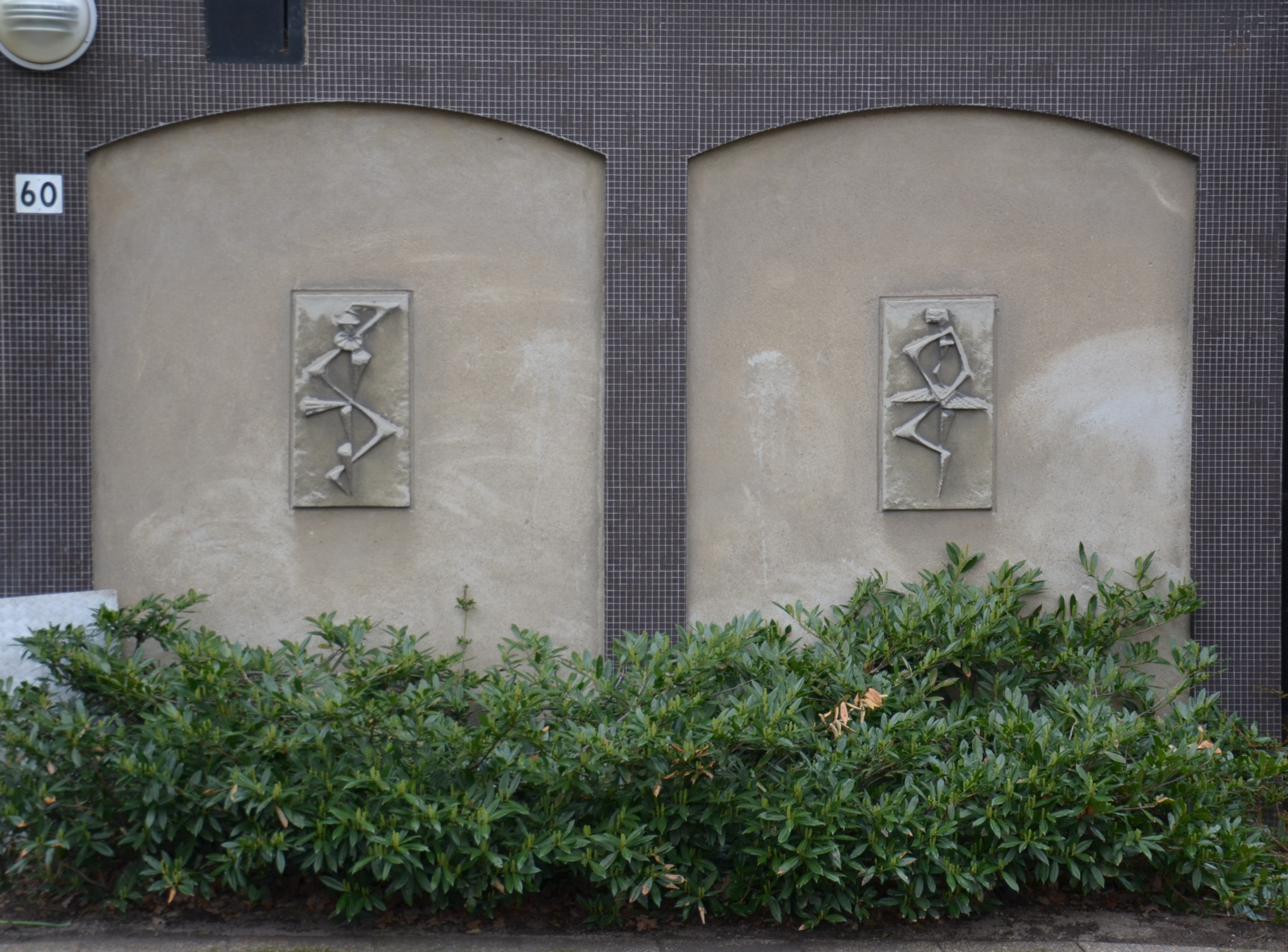 Colombine and Harlekin, reliefs by Arne Jones, Vasaloppsvägen 60, Västertorp, Stockholm, Sweden